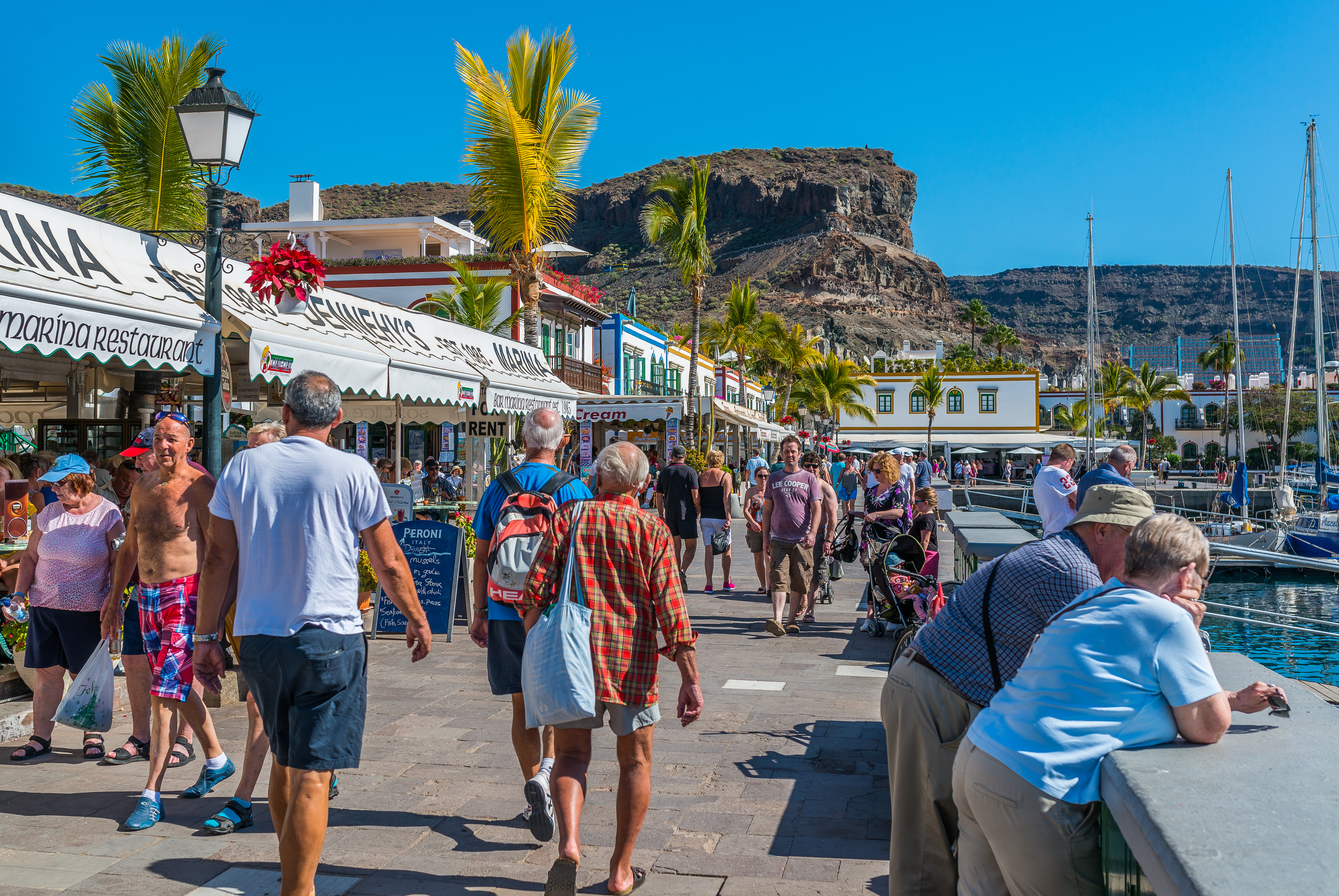 Puerto de Mogán Gran Canaria January 2016